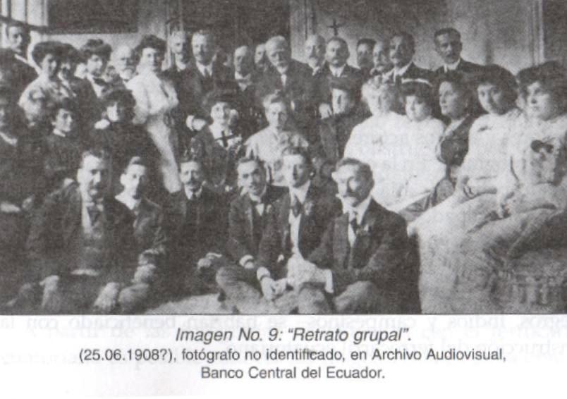 In 1906, the President og Congress, Dr. Carlos Freile organized a reception in honor of President Alfaro